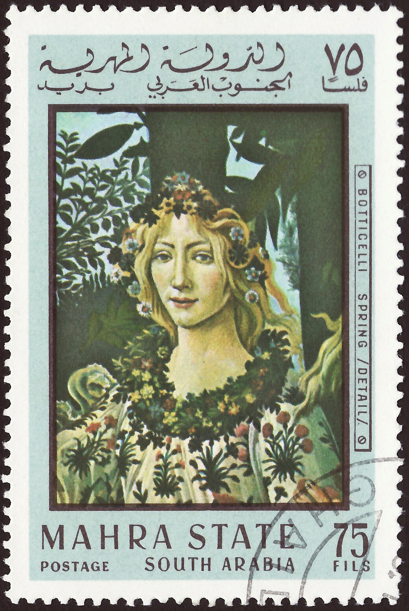 Stamp of the Mahra Sultanate of Qishn and Socotra (Mahra State, former Protectorate of Aden); 1967; commemorative stamp of the issue "Christmas 1967 - Paintings"; stamp motive with a detail of the painting "Primavera" (other title: "Allegory of Spring", "The Spring", "la Primavera"...etc.) by Sandro Botticelli (1445-1510); The painting was created in 1482 in the style of the Italian Early Renaissance and is actual located in the "Galleria dei Uffizi" in Florence (Italy).; stamp postmarked Sandro Botticelli (1445–1510) Alternative names Birth name: Allessandro FilipepiSandro FilipepiAlessandro di Mariano FilipepiAlessandro di Mariano Filipepi BotticelliDescription painter and artistDate of birth/death 1 March 1445 17 May 1510Location of birth/death Florence FlorenceWork location Florence (1469–1481), Pisa (1475), Rome (1481–1482), Florence (1482–1490), Volterra (ca. 1483), Mantua (1502), Florence (1503–1510)Authority control : Q5669 VIAF: 19686406 ISNI: 0000 0001 2099 4768 ULAN: 500015254 LCCN: n79022942 NLA: 35020599 WorldCat creator QS:P170,Q5669 Uffizi Gallery Native nameGalleria degli UffiziLocationFlorenceCoordinates43° 46′ 06.24″ N, 11° 15′ 21.24″ E Established1581 (built), 1765 (open to public)Web page control : Q16335227 VIAF: 316731929 institution QS:P195,Q16335227 Stamp: Michel: No. 52A; Yvert & Tellier: 7E Color: multicolored Watermark: none Nominal value: 75 Fils Postage validity: from 1967 until 31 October 1969 date QS:P,+1967-00-00T00:00:00Z/8,P580,+1967-00-00T00:00:00Z/9,P582,+1969-10-31T00:00:00Z/11 Stamp picture size (printed area of a single stamp without year line); 34.5 x 54.5 mm